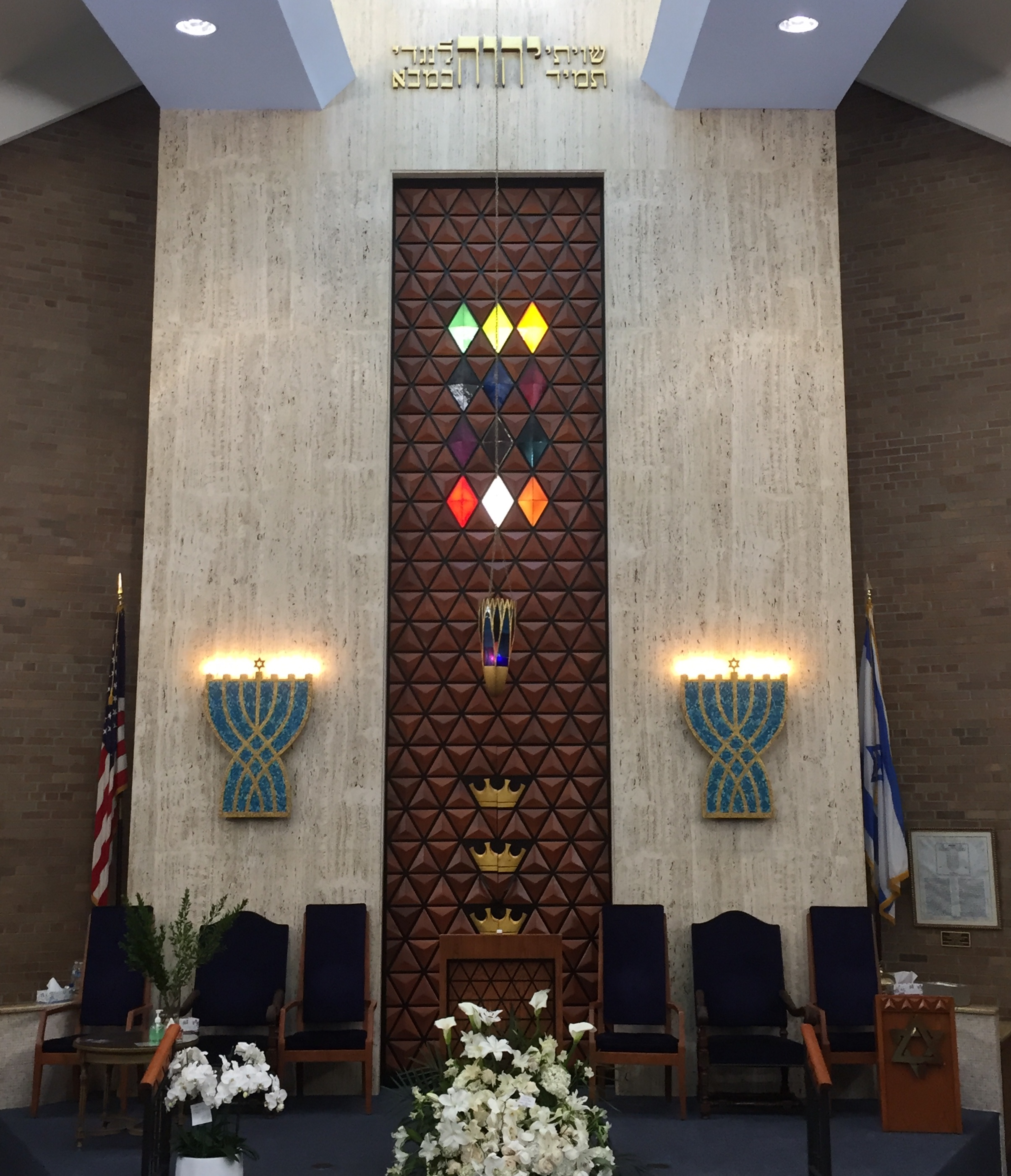 Interior view of the main sanctuary of the Synagogue of Deal, 128 Norwood Avenue, Deal, New Jersey, USA